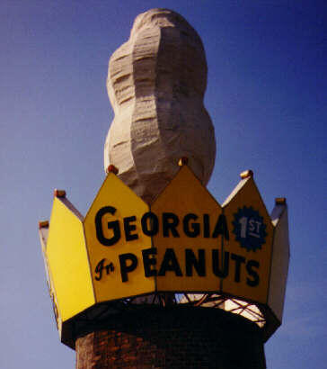 Peanut Monument in Ashburn, Georgia.